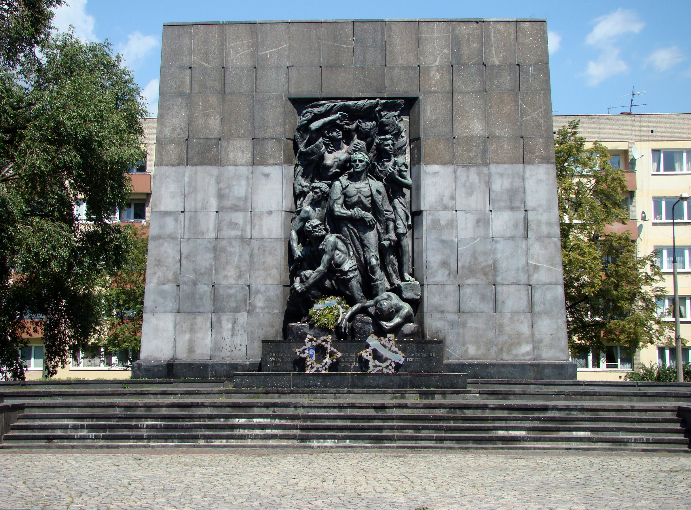 Warsaw Ghetto Uprising Monument